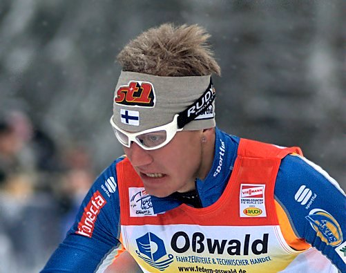 Ville Nousianen at the Tour de Ski 2010 in Oberhof